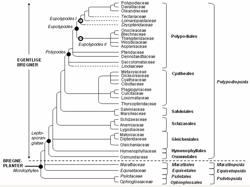 Phylogeny tree of extant ferns, accordin to Smith et al 2006